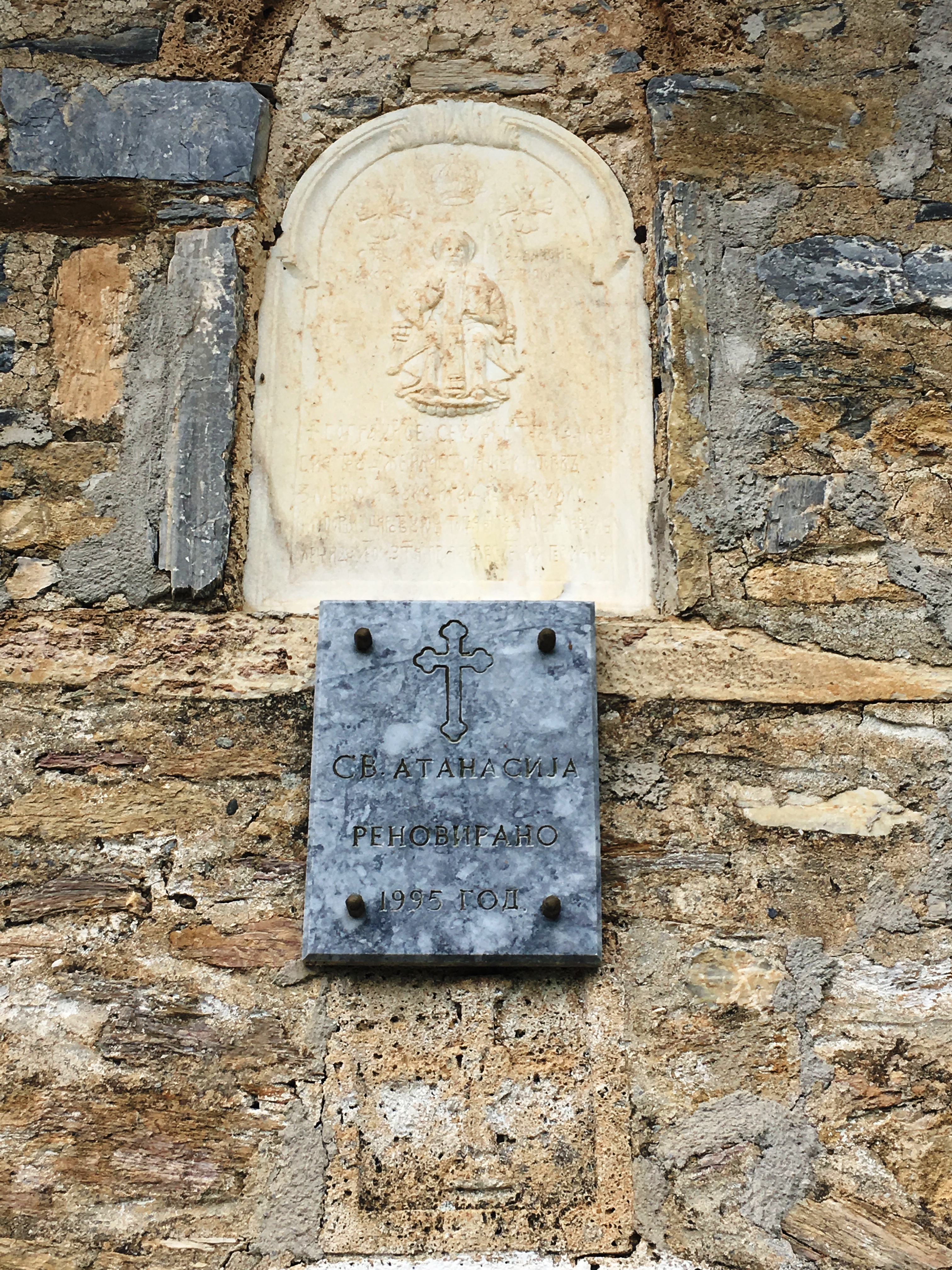 Marble information plaque above one of the opening doors of St. Athanasius Church in the village of Ničpur